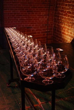 Glass Duo's glass harp